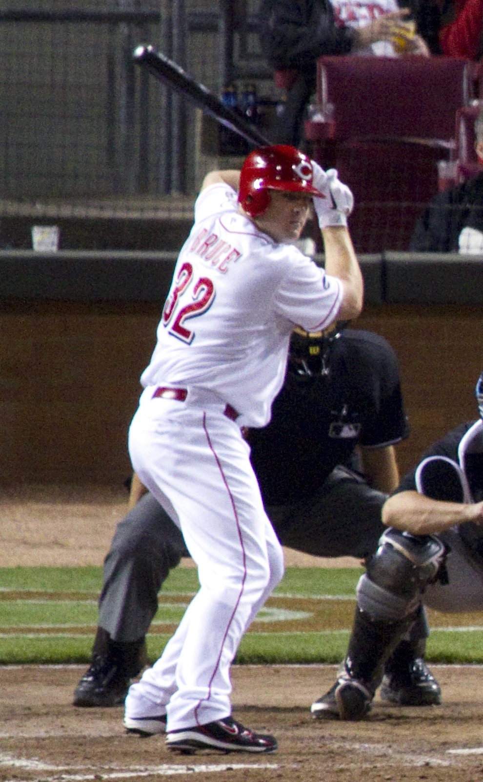 Jay Bruce